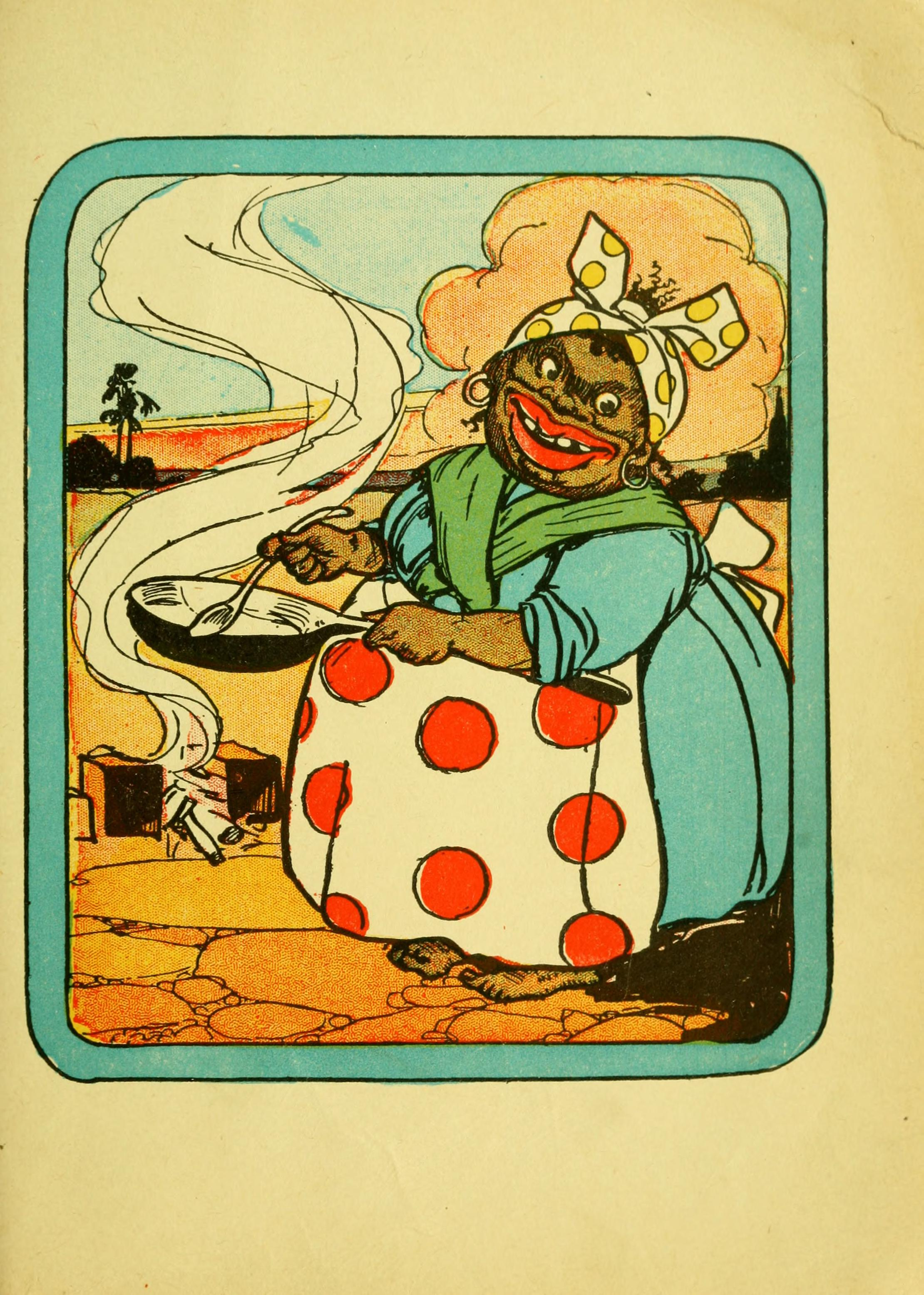 Title: The story of Little Black Sambo Year: 1908 (1900s) Authors: Bannerman, Helen, 1862-1946 Neill, John R. (John Rea), ill Subjects: Publisher: Chicago, Ill. : The Reilly and Britton Co. Text Appearing Before Image: p, and they ran faster and faster,till they were whirling round so fast thatyou couldnt see their legs at all. And still they ran faster and faster andfaster, till they all just melted away, andthere was nothing left but a great big poolof melted butter (or ghi, as it is calledin India) round the foot of the tree. Now Black Jumbo was just cominghome from his work, with a great big brasspot in his arms, and when he saw whatwas left of all the Tigers he said, Oh!what lovely melted butter! Ill take that 3P Little Black Sambo home to Black Mumbo for her to cookwith. So he put it all into the great big brasspot and took it home to Black Mumbo tocook with. When Black Mumbo saw the meltedbutter, wasnt she pleased! Now, saidshe, well all have pancakes for supper! So she got flour and eggs and milk andsugar and butter, and she made a huge bigplate of most lovely pancakes. And shefried them in the melted butter which theTigers had made, and they were just asyellow and brown as little Tigers. 30 Text Appearing After Image: Little Black Sambo And then they all sat down to supper.And Black Mumbo ate Twenty-seven pan-cakes, and Black Jumbo ate Fifty-five, butLittle Black Sambo ate a Hundred andSixty nine, because he was so hungry.